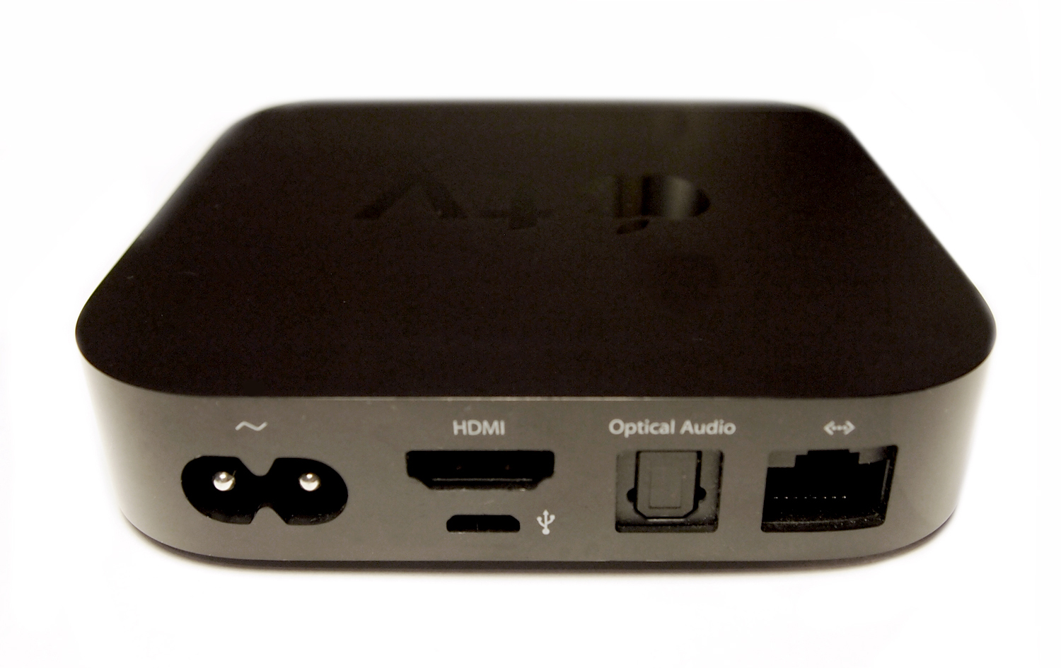 The rear side of Apple TV (2nd generation)